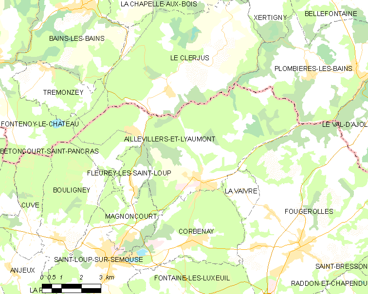 Map of French municipality